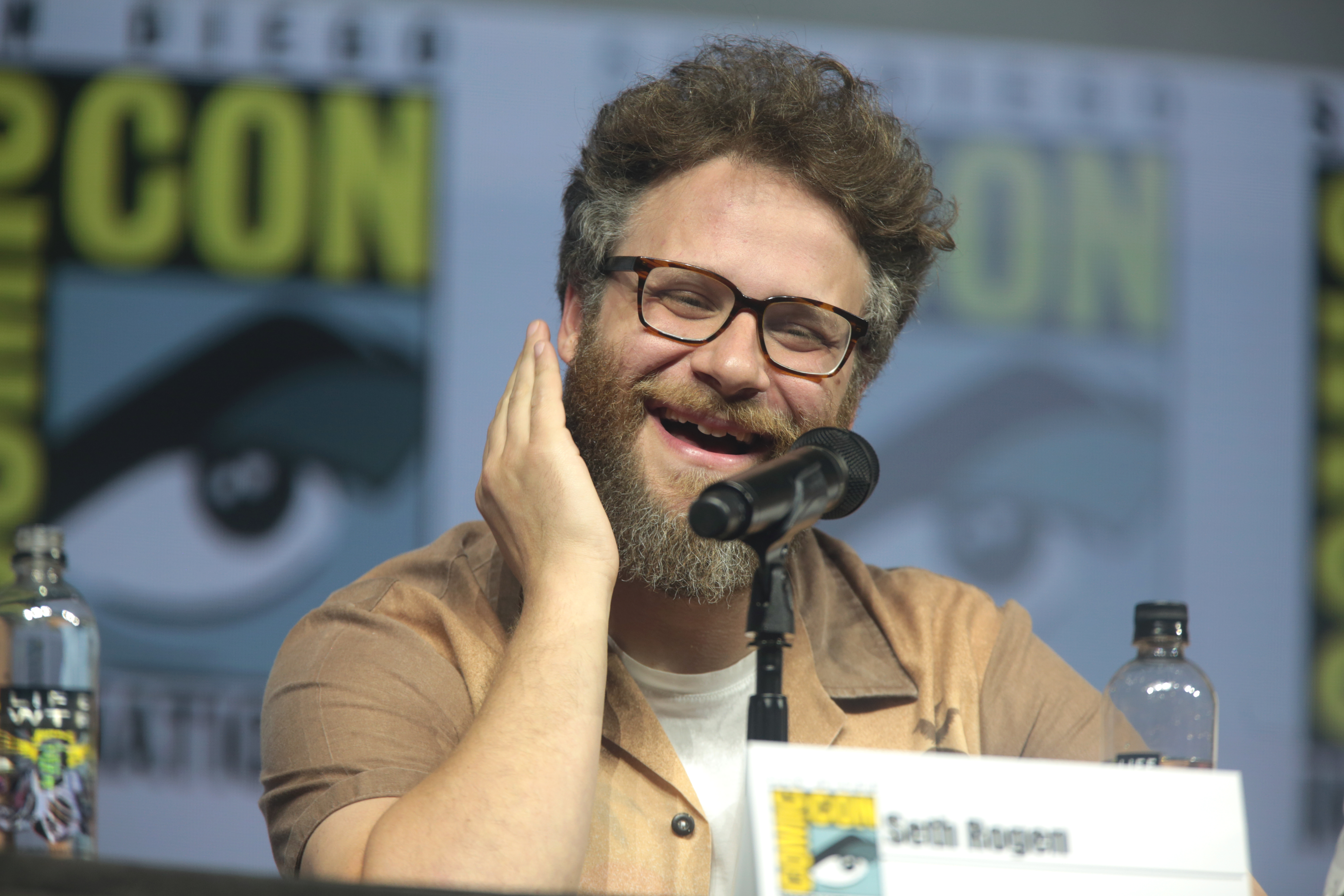 Seth Rogen speaking at the 2018 San Diego Comic Con International, for "Preacher", at the San Diego Convention Center in San Diego, California.